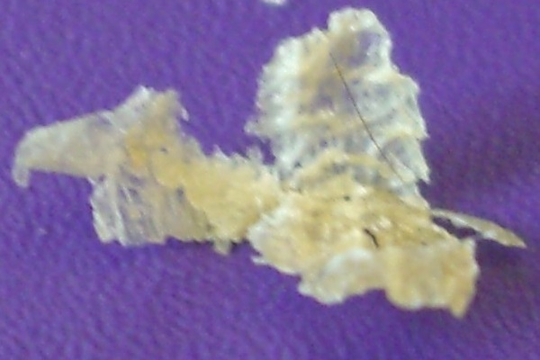 Dry earwax, typical of Asian and Native Americans. Cropped to remove image of swab.